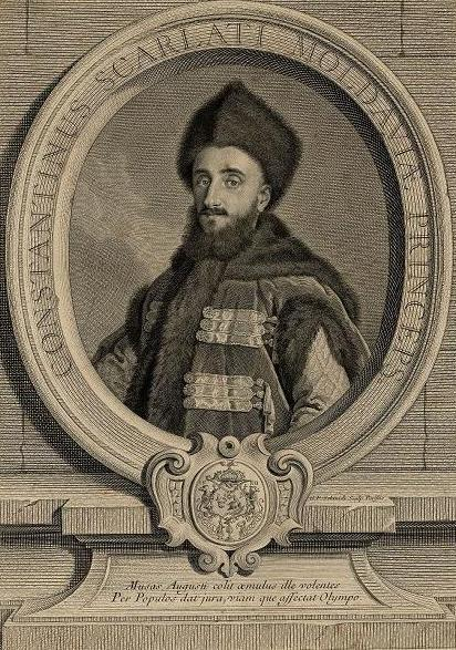 Constantine Mavrocordatos (Greek: Κωνσταντίνος Μαυροκορδάτος, Romanian: Constantin Mavrocordat; February 27, 1711-November 23, 1769) was a Greek noble who served as Prince of Wallachia and Prince of Moldavia at several intervals Constantin Maurocordato Scarlati, hospodar de Valachie et de Moldavie (Identification d’après les albums Louis-Philippe) Inscriptions marques : Lettre : "CONSTANTINUS SCARLATI MOLDAVIAE PRINCEPS"